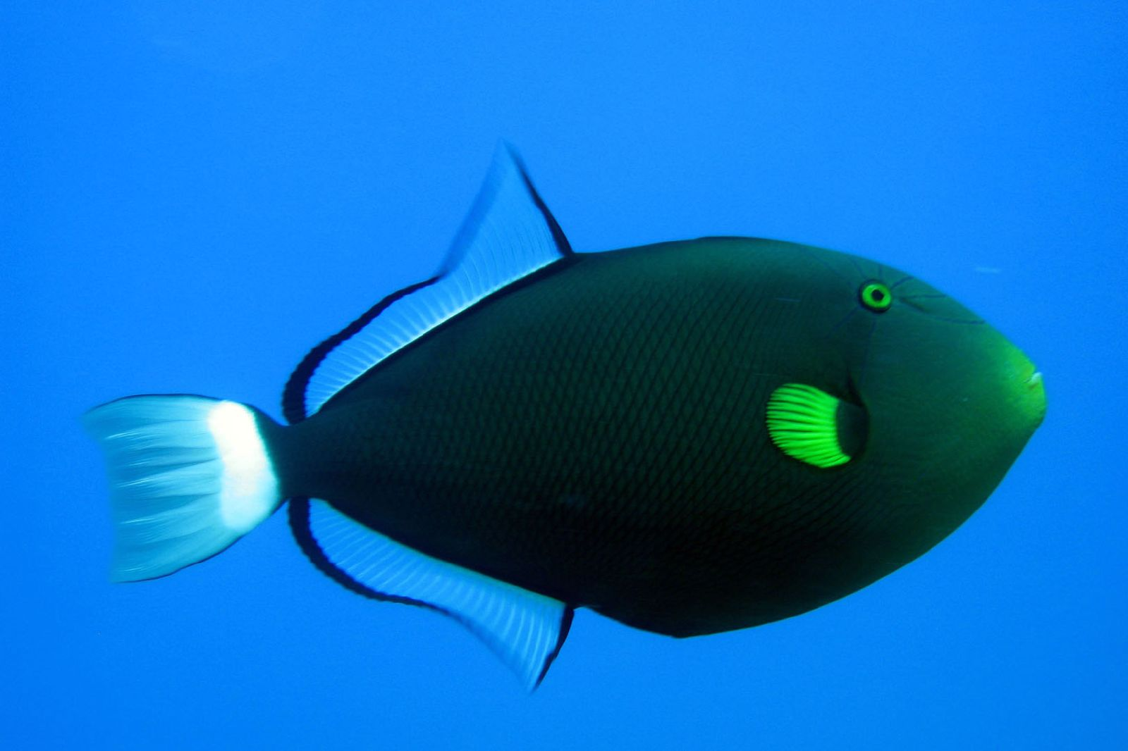 Melichthys vidua